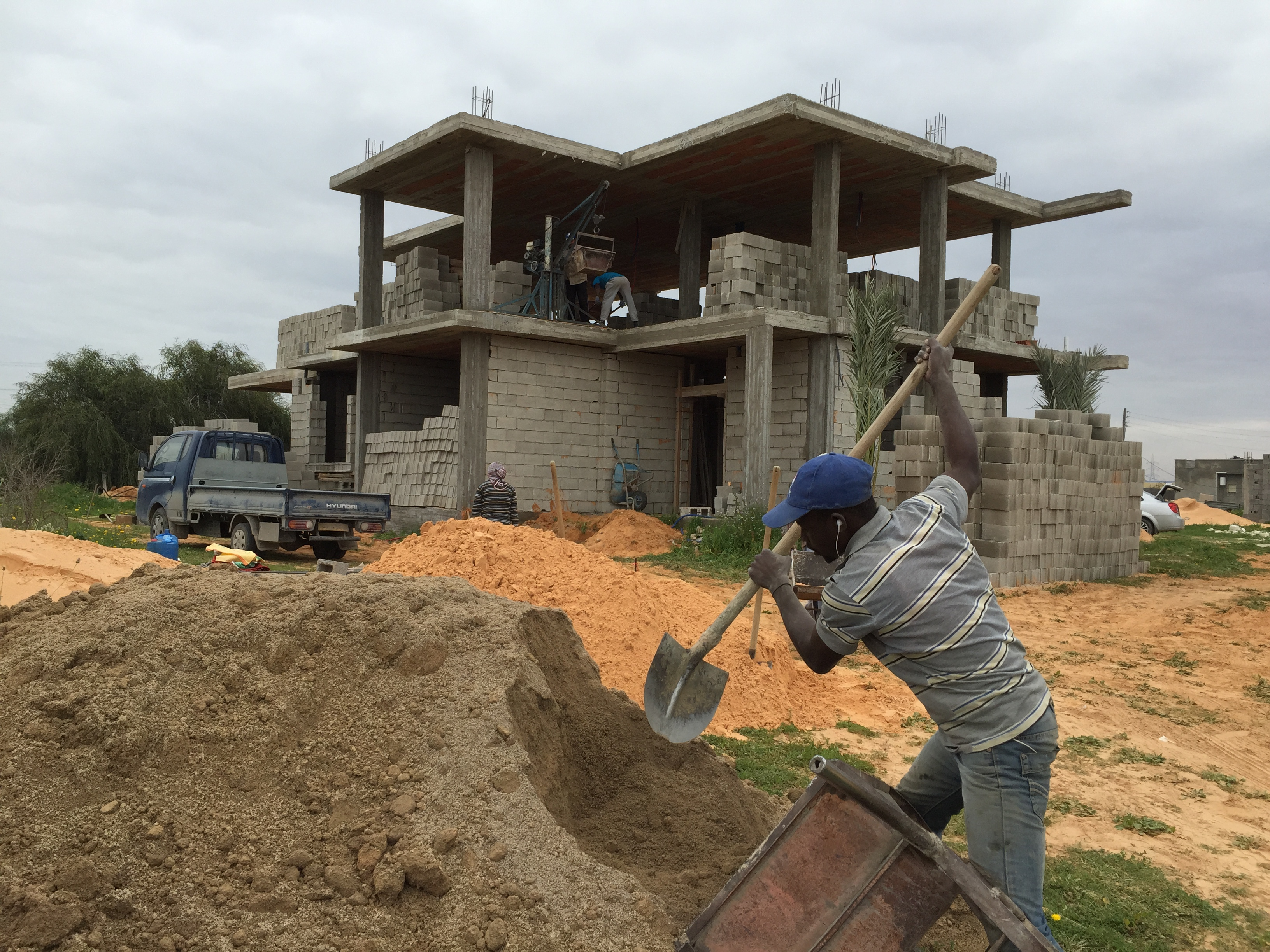 This is for an African workers in Libya while a building work This is an image of "African people at work" from Libyan Arab Jamahiriya